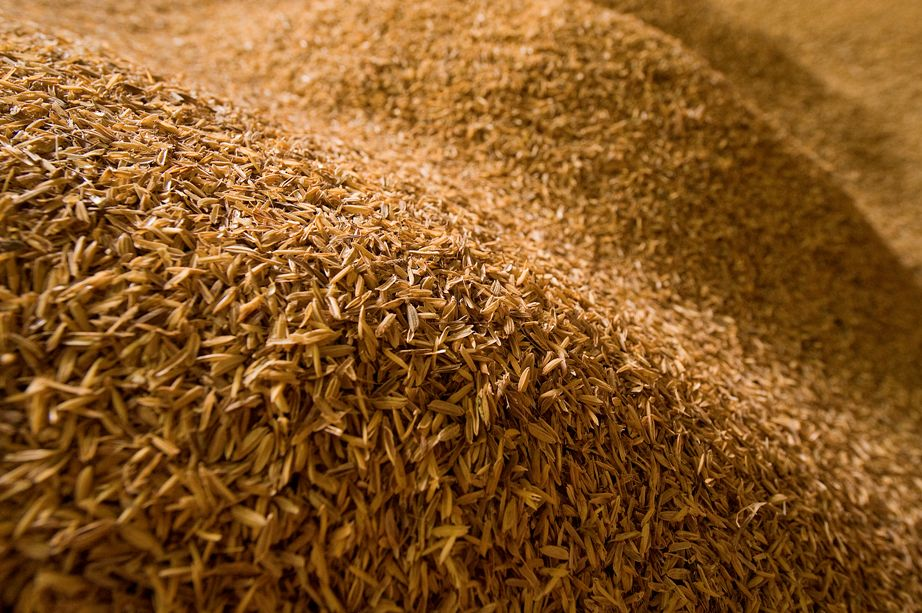 image used in the co-processing wiki